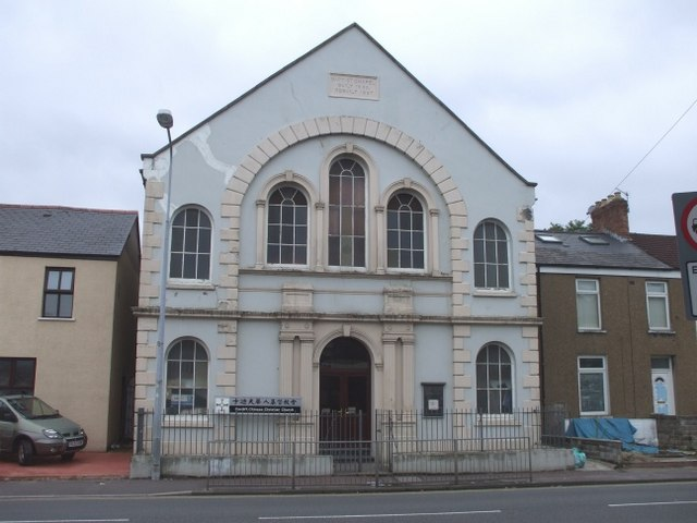 Cardiff Chinese Christian Church. Formerly Llandaff Rd Baptist Church